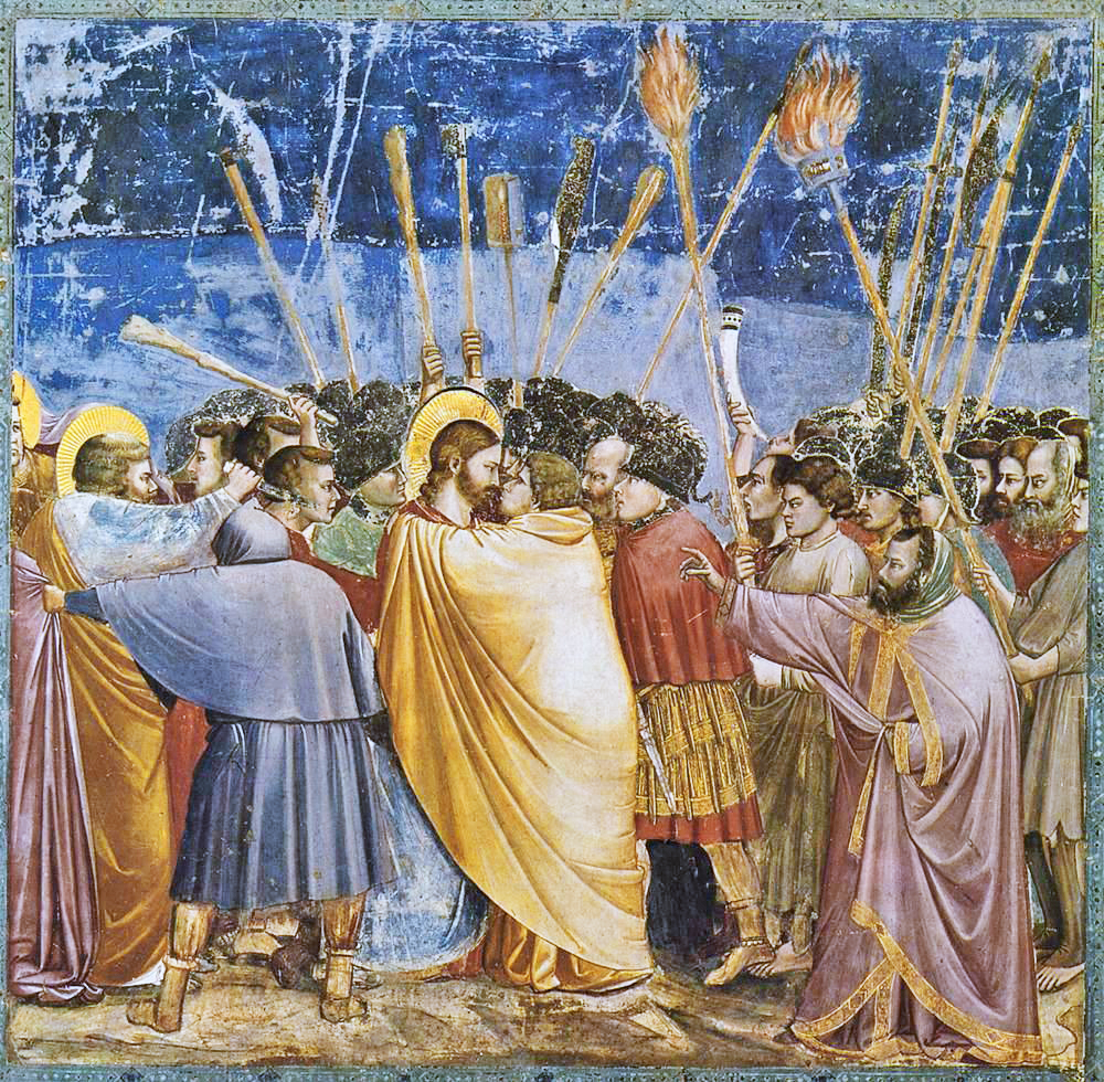 The disciple on the left, who wounds a soldier with his knife, is Saint Peter.